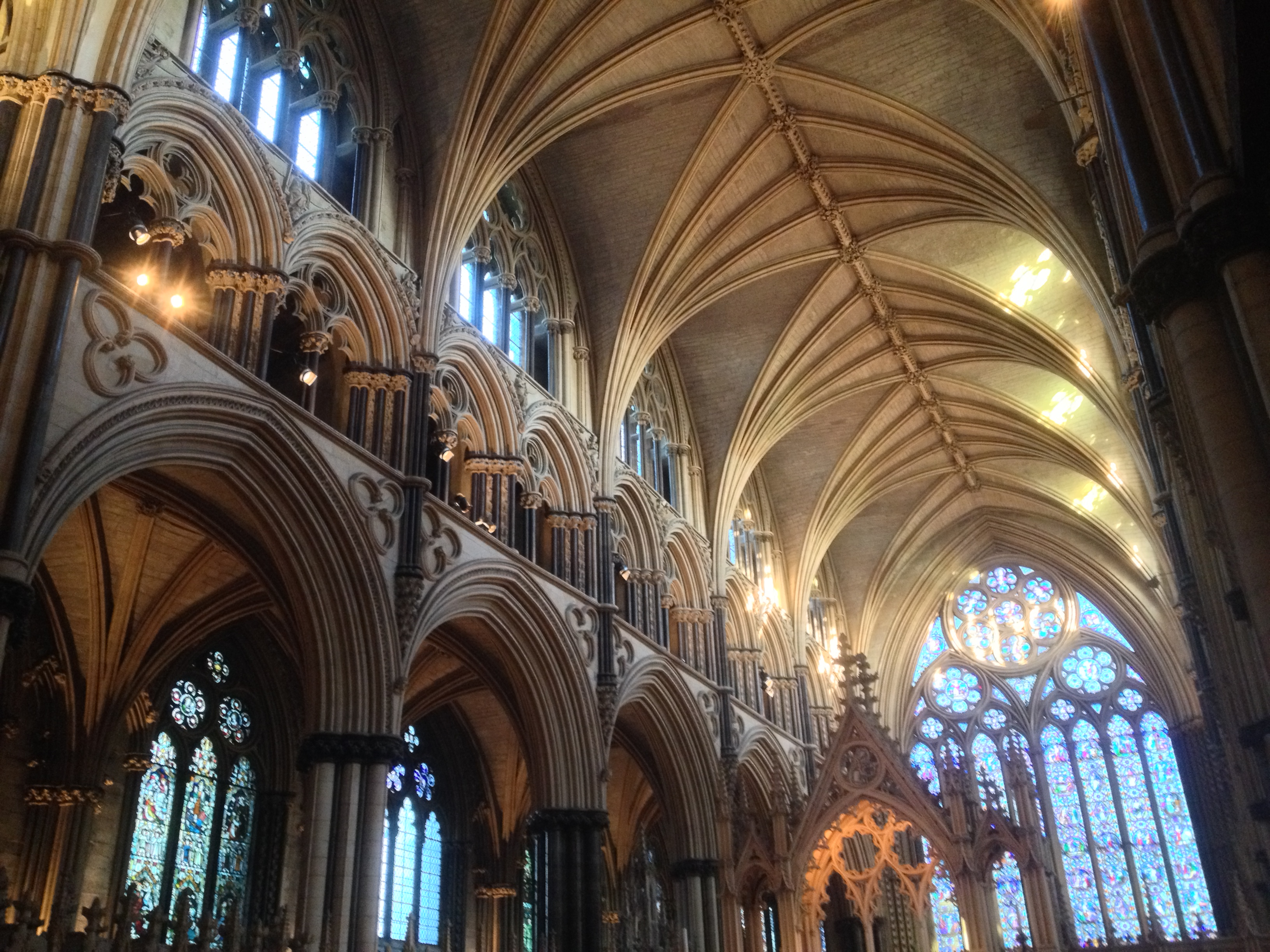 Lincoln Cathedral Angel Choir